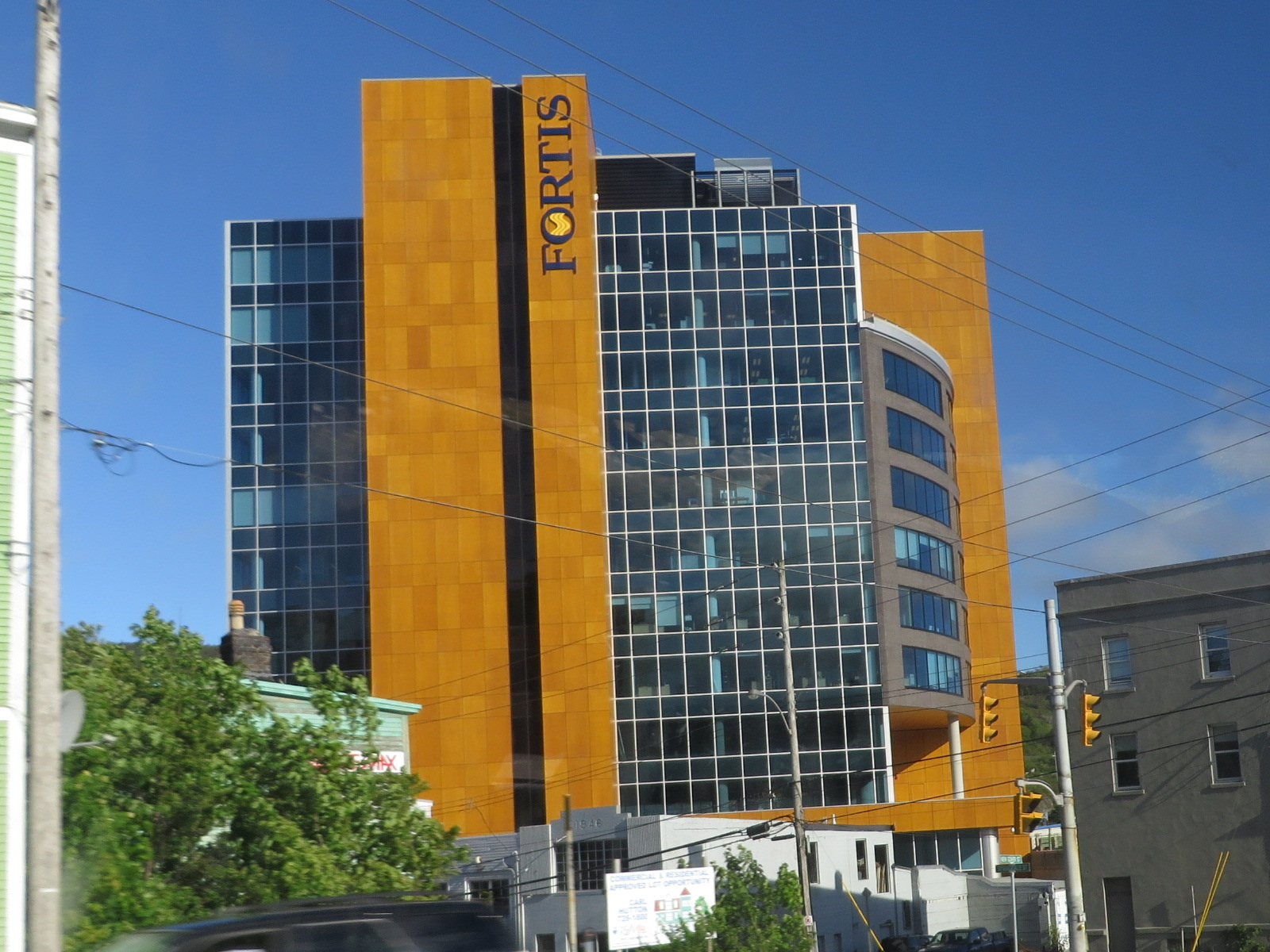 Finished in 2014, Fortis Place is a 12 story(49m) high-rise office building, located in St.John's Newfoundland.